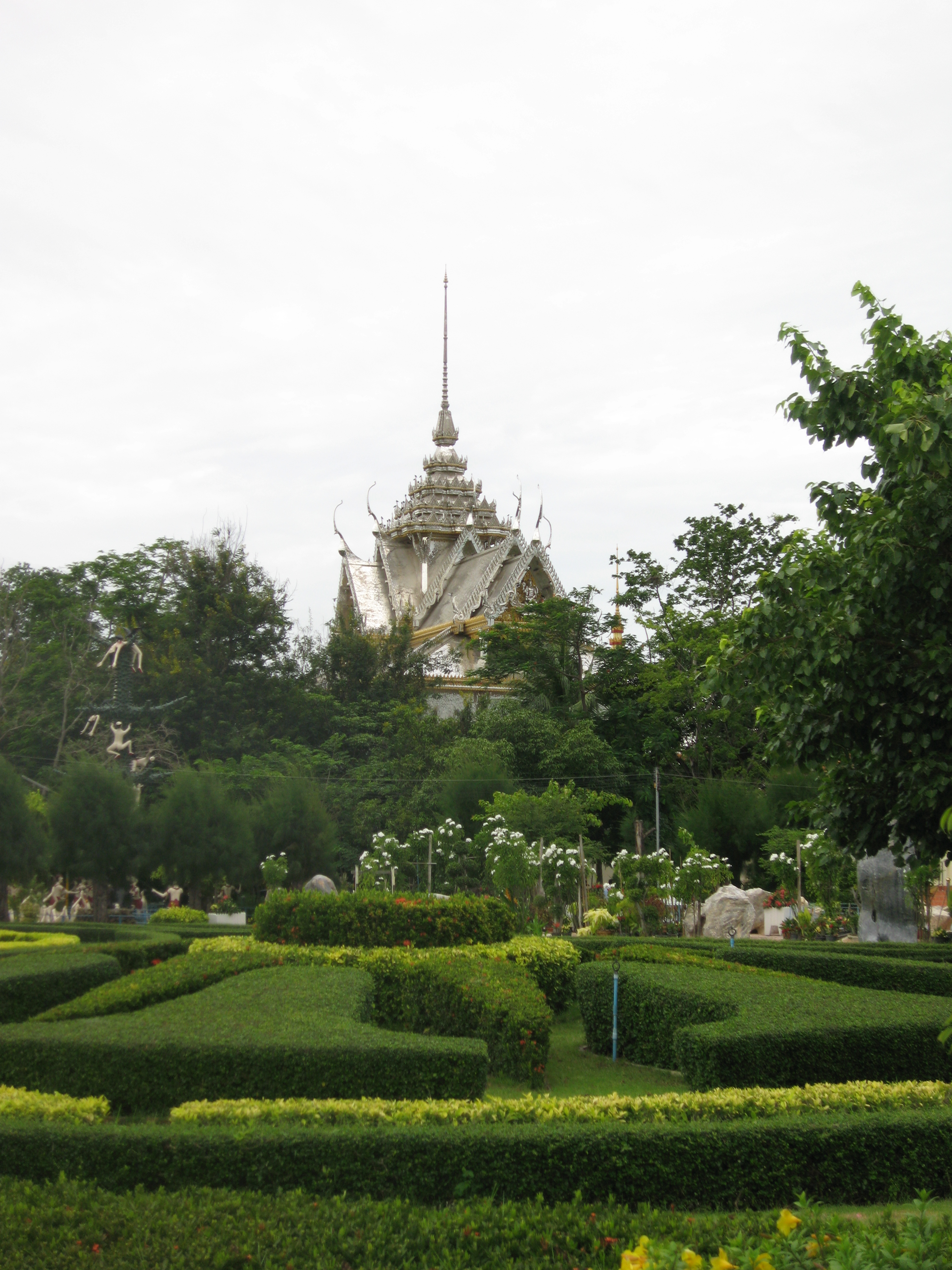 "Wat Muang ??????? Located at Mu 6 Tambon Huasaphan, Amphoe Wiset Chai Chan, 8 kilometers from Angthong City. The ubosot of Wat Muang is surrounded by the biggest lotus petals in the world. Inside the ubosot, there are figures of renowned monks from all over the country. Visitors can also enjoy shopping for local Angthong products. It is a fairly large Wat with expansive, landscaped grounds with many small restaurants and food & souvenir vendors. No price gouging here ? the Buddhist monks control the prices of everything sold on the grounds so that visitors will be encouraged to return often. The Wat boasts one of the largest statues of Buddha in Thailand ? over 90 feet tall! Unfortunately it is undergoing restoration and was closed to visitors when we were there. The main temple on the grounds has walls covered with small glass mirrors inside and out which gives it a spectacular effect. The main temple also houses a wide array of Thai Buddhist statues. A significant portion of the grounds is devoted to life size characters meant to dissuade visitors from an evil life and encourage ?jai dee? or glad heart through stories and fables. Below are two giant characters depicting the entrance to hell for those of ?jai dum? or black heart." from